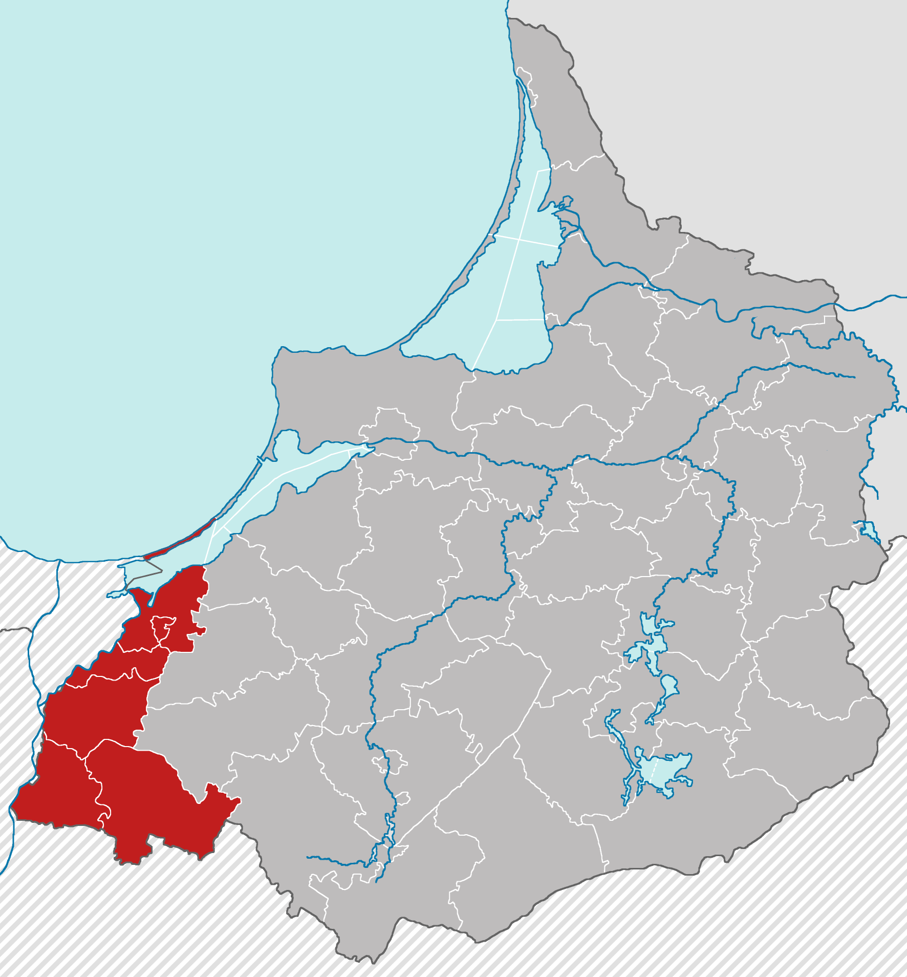 Locator map of Regierungsbezirk Westpreußen in East Prussia with Borders of 31.08.1939